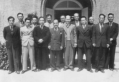 Chief Executive and Senior officials of GRI(Government of the Ryukyu Islands)